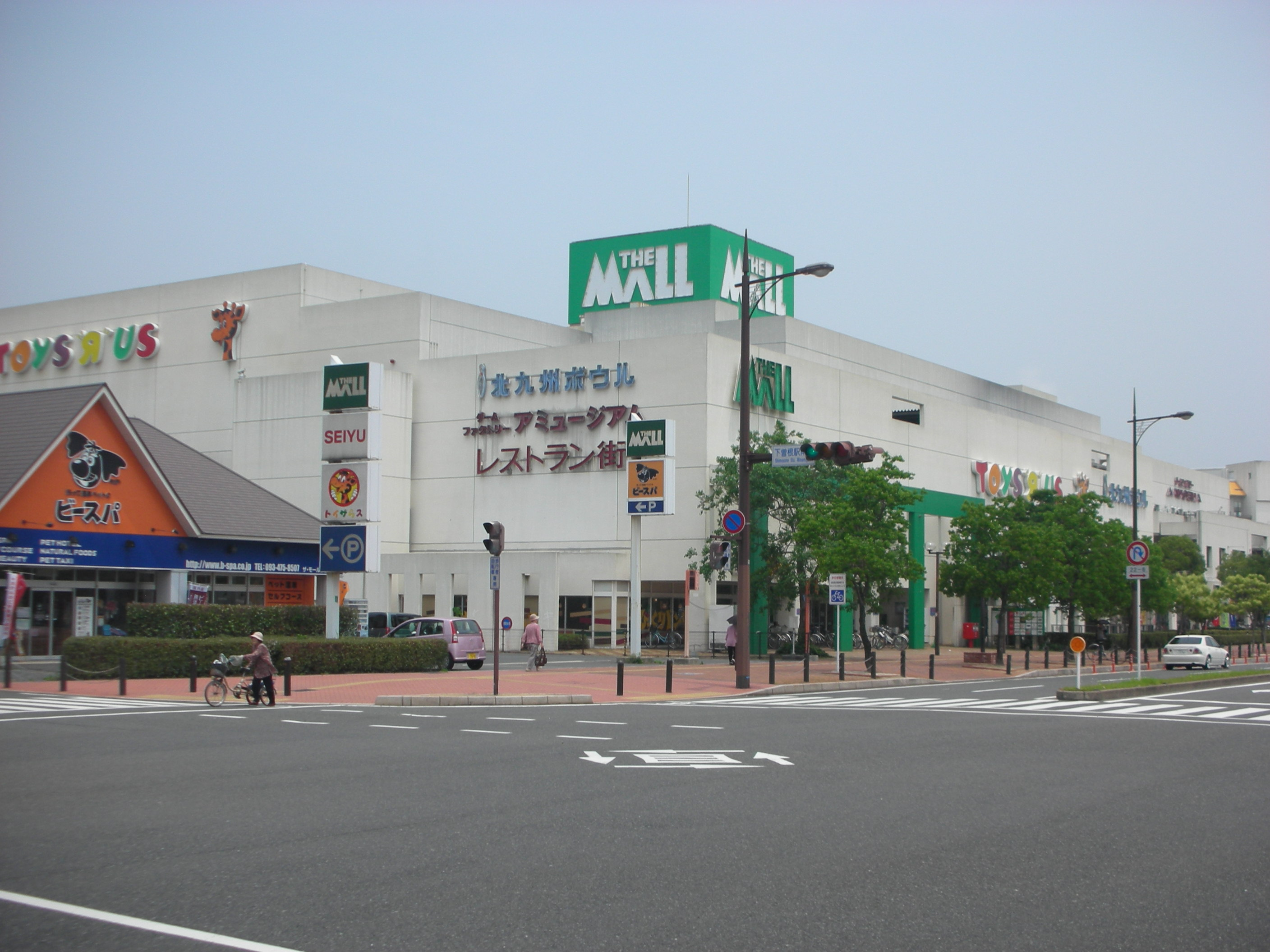 The maii kokura.(Kitakyusyu City, Fukuoka Prefecture, Japan)